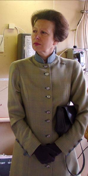 Anne, Princess Royal visits U.S. Naval ship